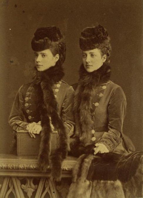 Alexandra and Dagmar of Denmark, the future Queen of the United Kingdom and Empress of Russia, 1875